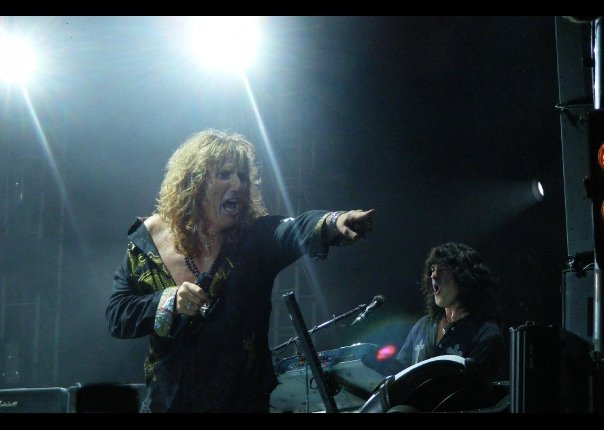 David Coverdale performing with Whitesnake at Parkorman Venue, Istanbul / Turkey (2008)